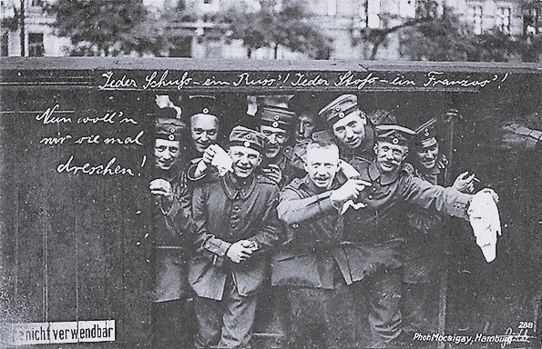 Welfare card of the Patriotic Women's Association, Provincial Association Berlin for the best of the war welfareDistribution: Norddeutscher Export-Verlag Every shot - a Russian! Every push - a Frenchman! Now let's thresh them!